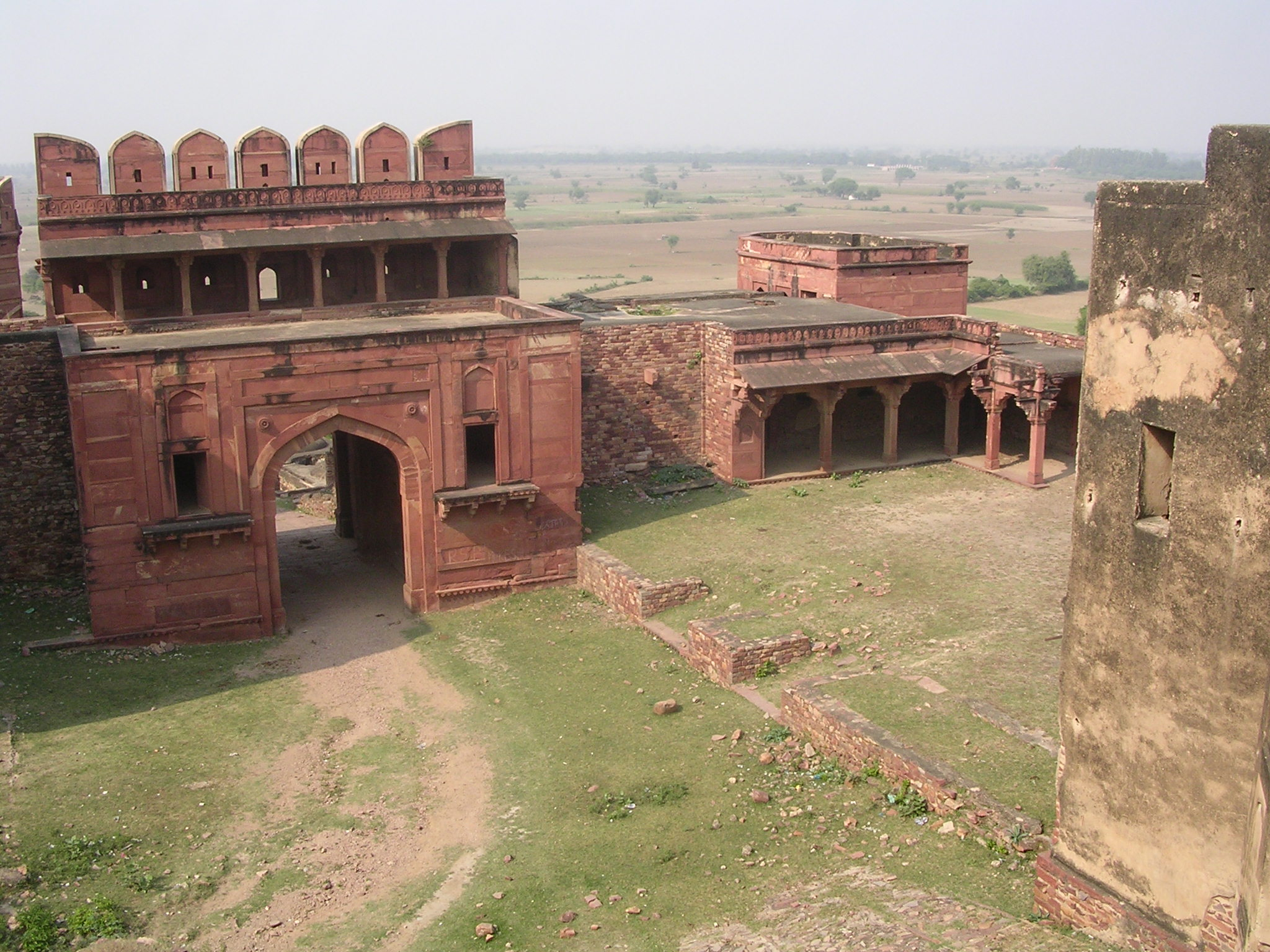 (The Hathi Pol, or elephant gate, situated at the southern end of the palace complex of Fatehpur Sikri, and named after the two huge stone elephants on either side of the central archway.[1]) One building at Fathepur Sikri, near Agra, India on july 3rd 2005